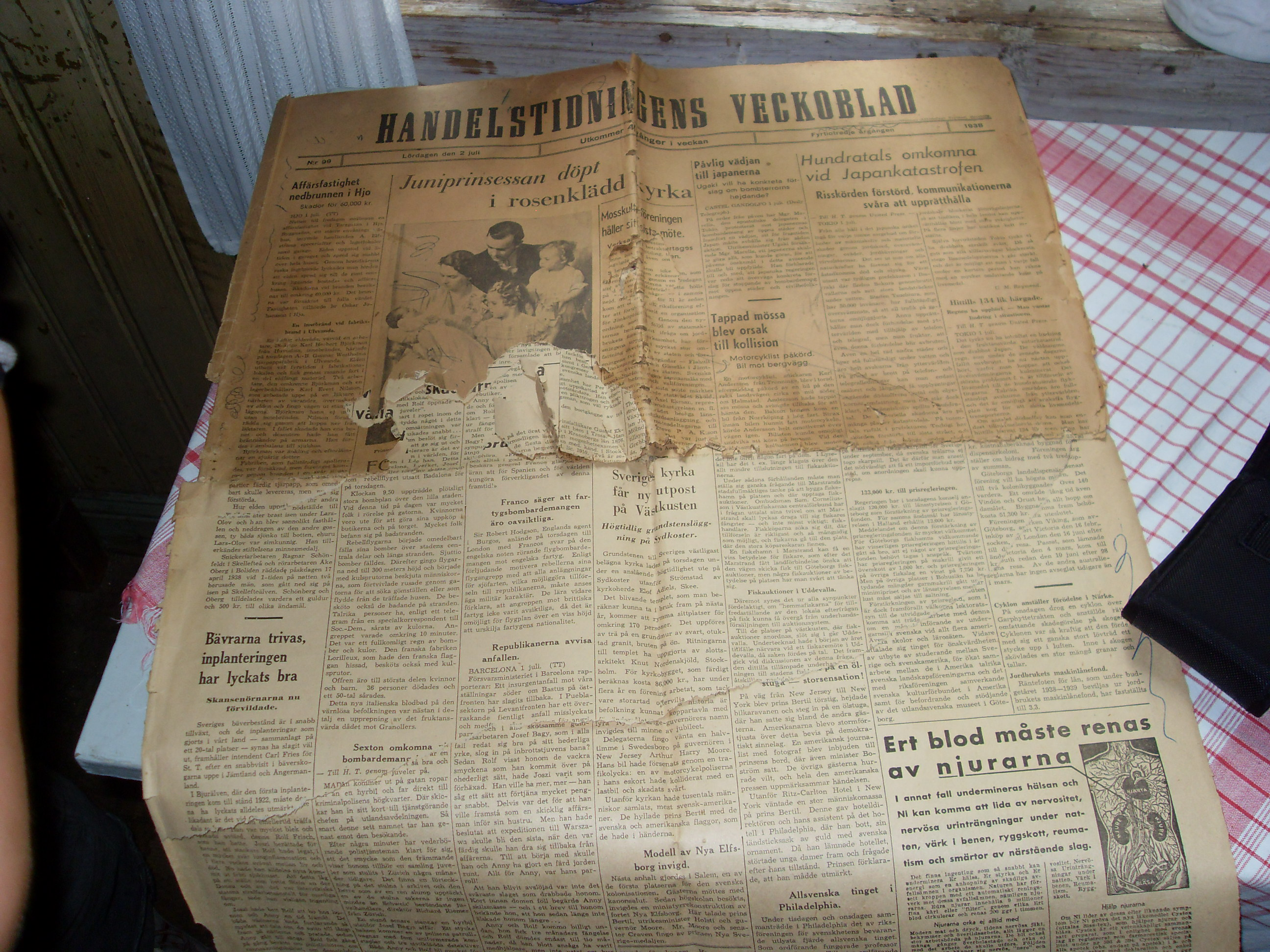 Swedish newspaper Handelstidningens Veckoblad of 2 July 1938. Original description: Zeitung von 1938